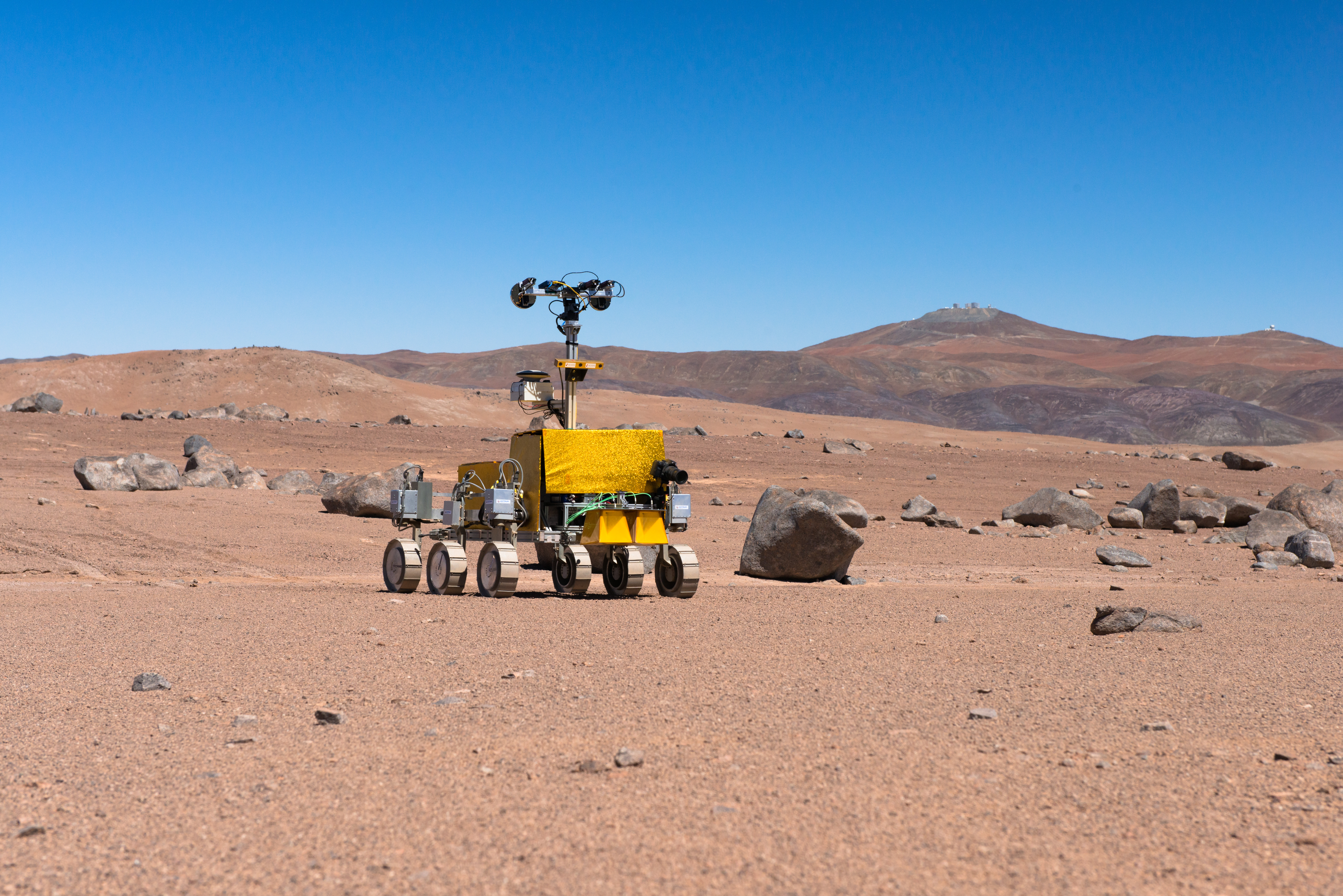 Bridget the rover, pictured here with Paranal Observatory in the background. ESA's 2018 ExoMars mission is acting as the reference mission for the trial.